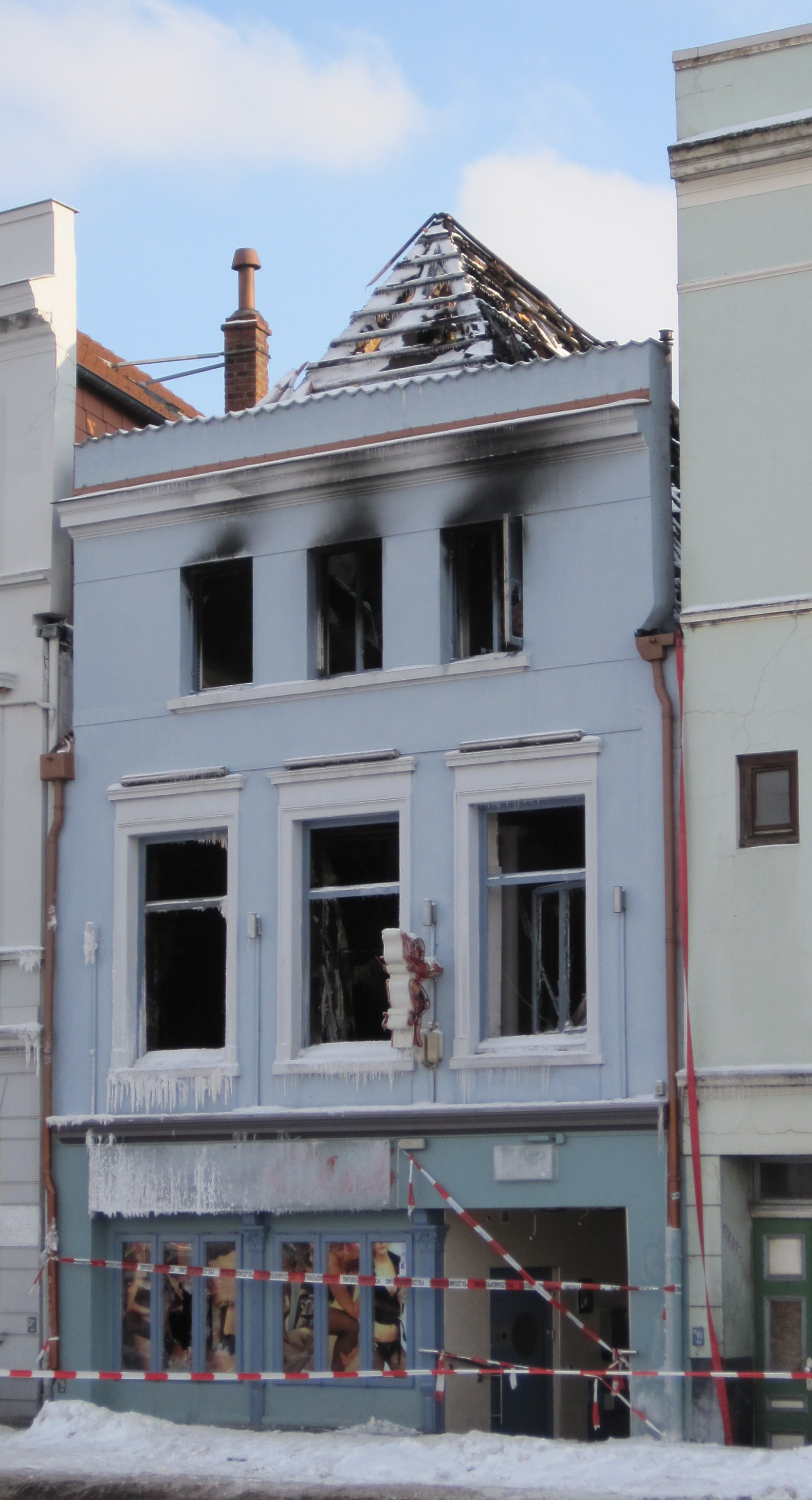 House in Lübeck's harbour burned out.